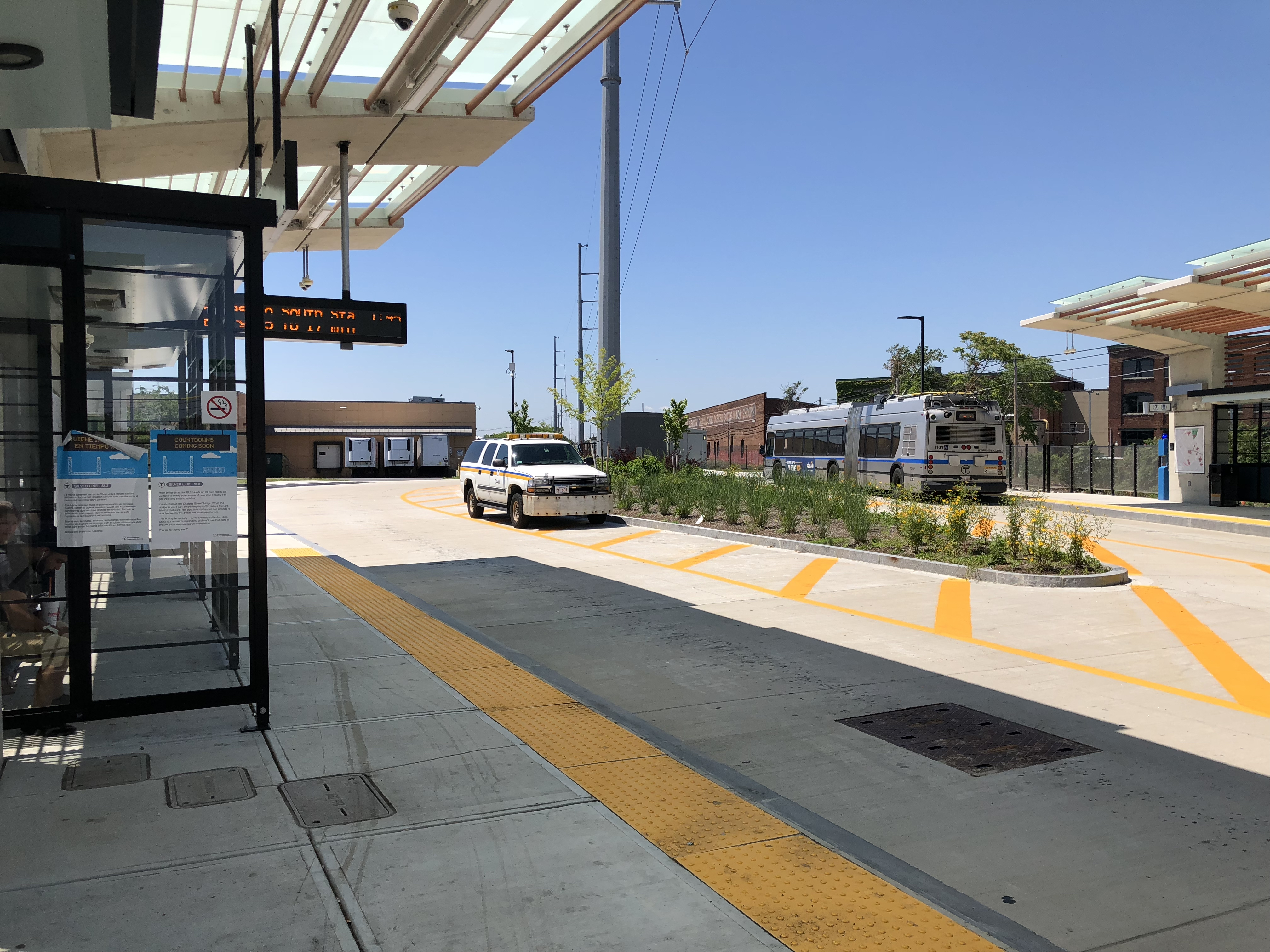 Overview of MBTA Chelsea Station, with SL3 bus waiting to start return journey to South Station, Boston and MBTA van. Market Basket loading dock is in the rear.